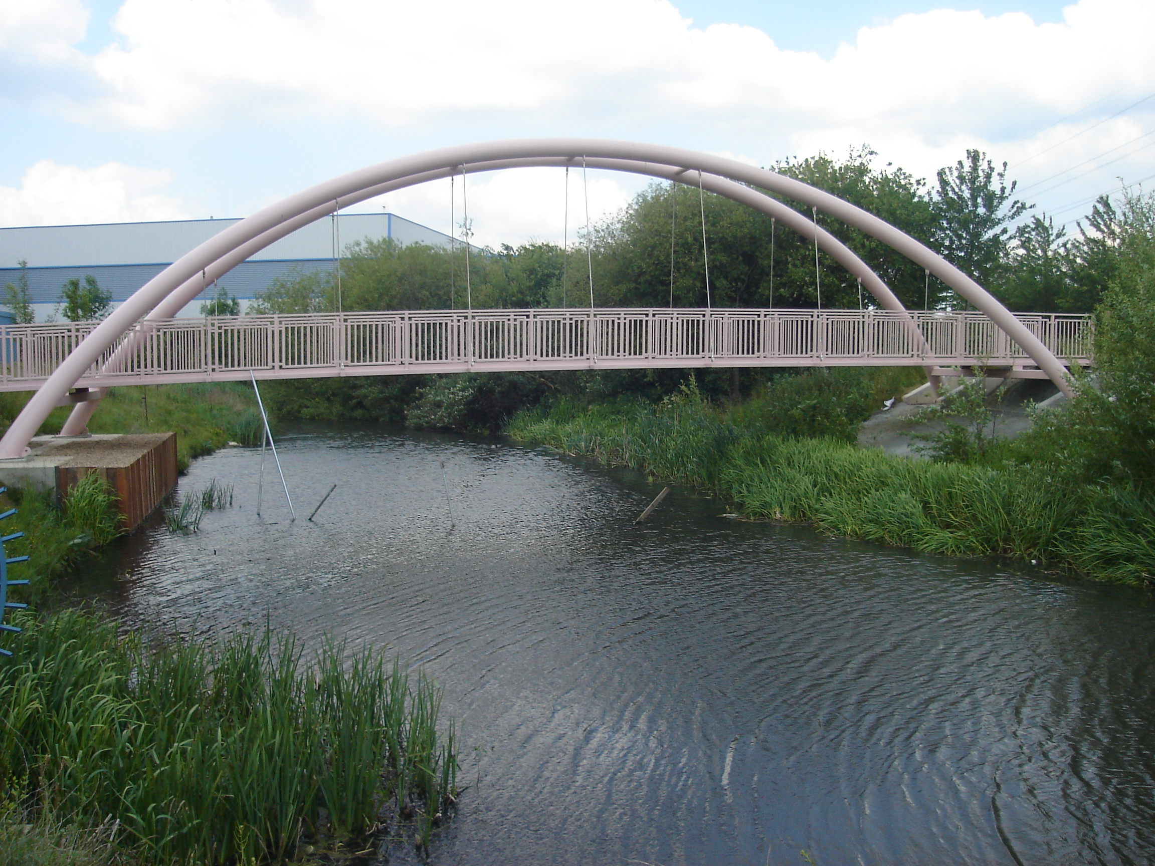 Picture of bridge at Mossops Creek, Brimsdown